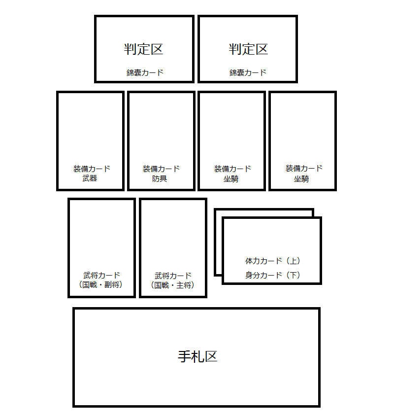 Placement of Personal Cards in a LTK Game (in Japanese)